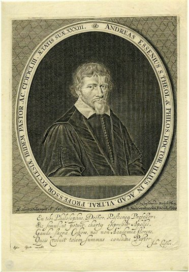 Portrait of Andreas Essenius, born 1620, professor of theology at Utrecht university (1653-1677), deceased 1677. Top part of the body, facing right, in gown, in oval. Print (copper engraving) by Steven van Lamsweerde from around 1650 to a drawing by H. Hoet from 1649, published in 1654 by Gerrit Nieuwenhuysen. With a 4-line Latin caption by Johannes Leusden.